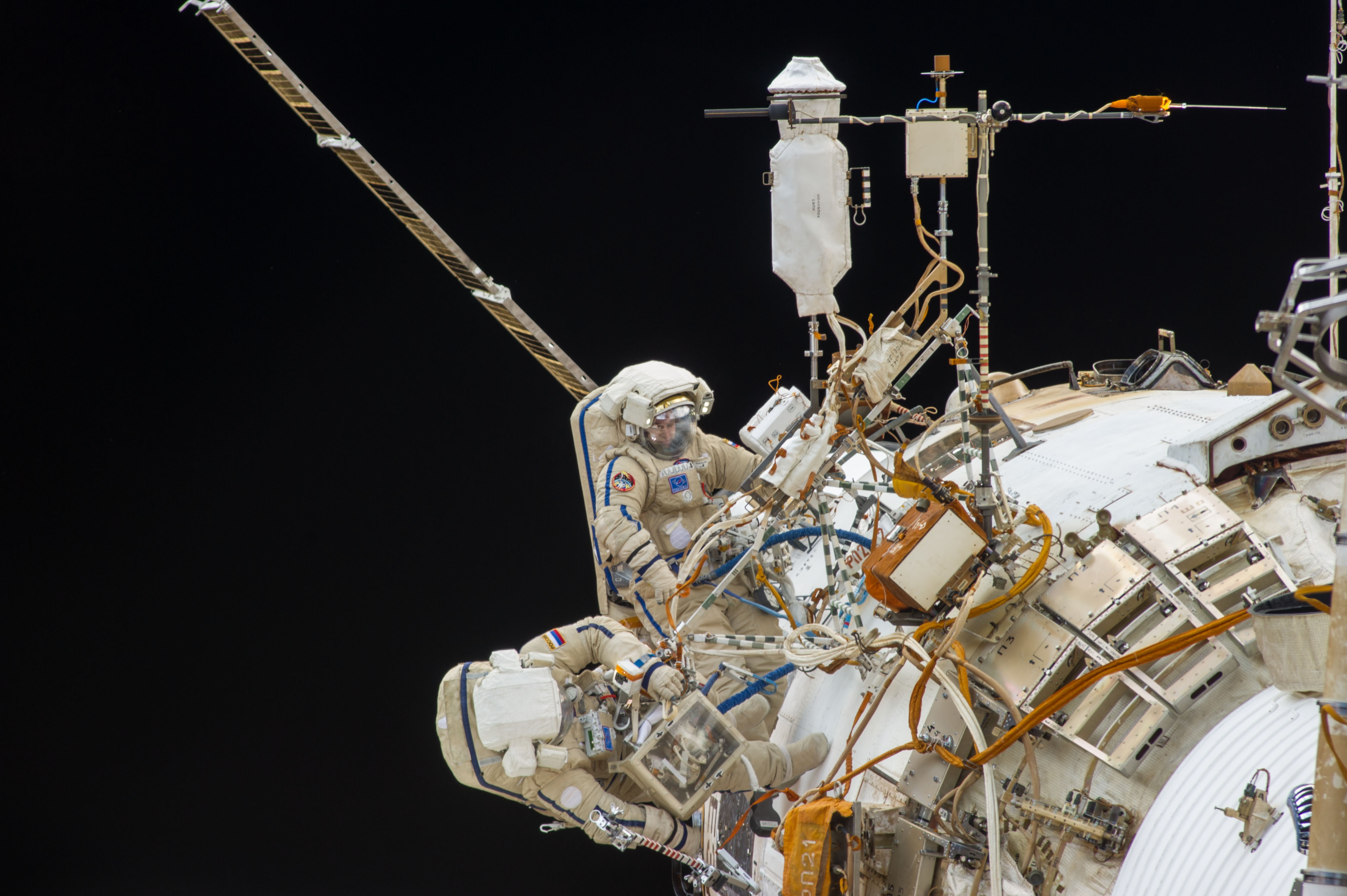 Flight Engineer Rick Mastracchio captured this view of spacewalkers Oleg Kotov and Sergey Ryazanskiy working outside the International Space Station and posted it to Twitter. Russian cosmonauts Oleg Kotov, Expedition 38 commander; and Sergey Ryazanskiy, flight engineer, attired in Russian Orlan spacesuits, participate in a session of extravehicular activity (EVA) in support of assembly and maintenance on the International Space Station. During the eight-hour, seven-minute spacewalk, Kotov and Ryazanskiy worked with two high-fidelity cameras, removed the Vsplesk experiment package and jettisoned it and replaced it with hardware for a more sophisticated earthquake-monitoring experiment, Seismoprognoz, which they attached to a Zvezda handrail.